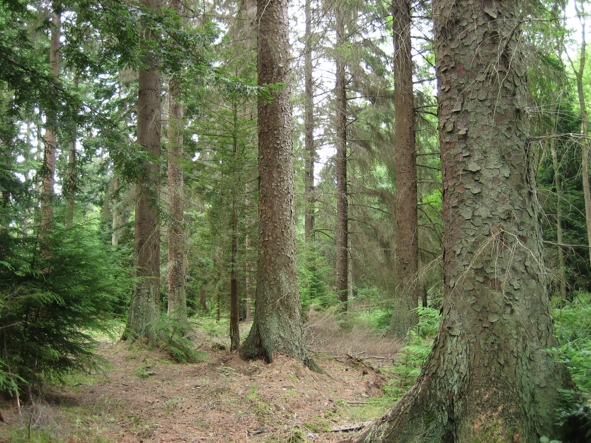 Picea sitchensis 50-53 m tall, planted at Kyloe Wood, Northumberland, Britain